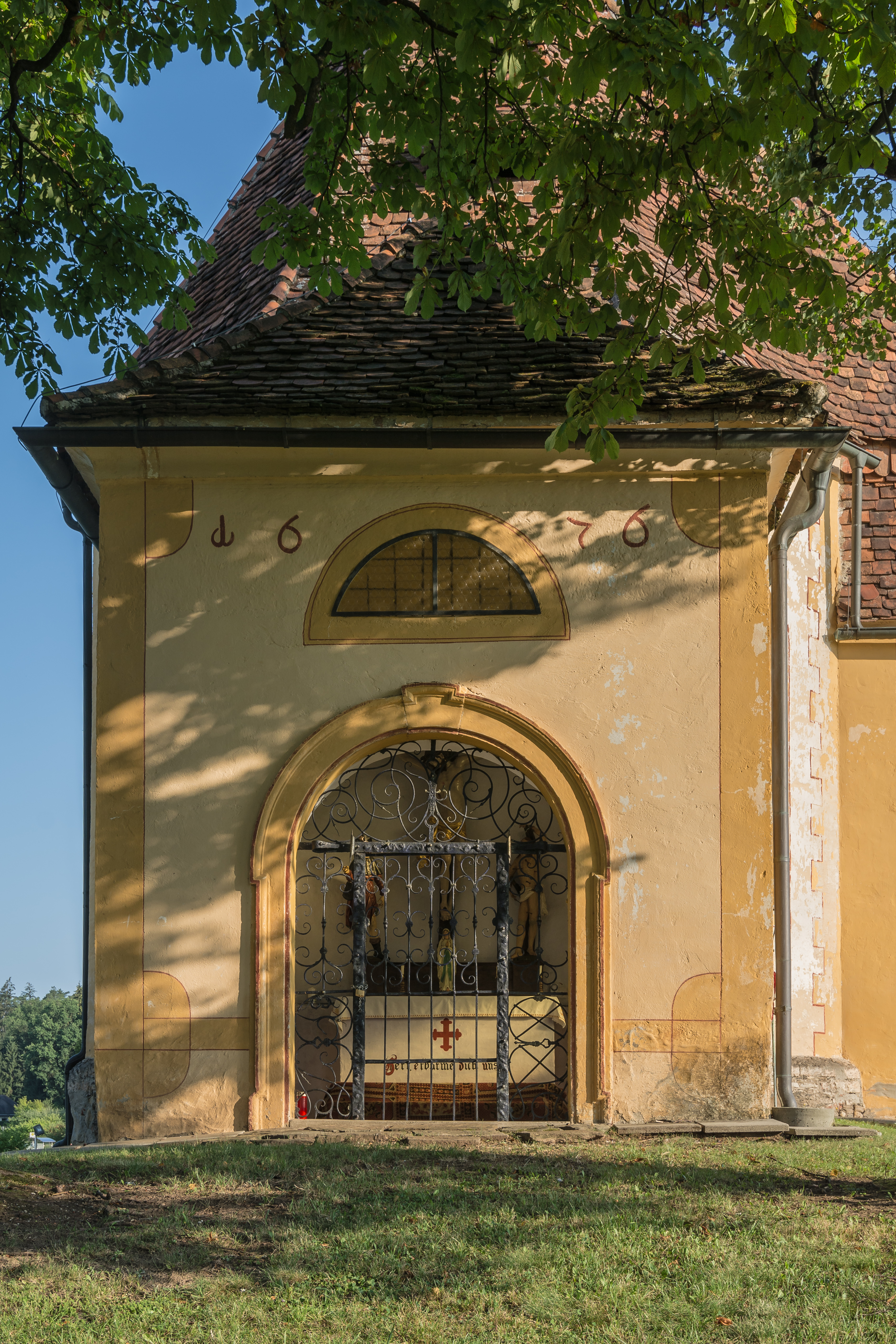 In the chapel of the cross at the southeast side of subsidiary church of Saint Sebastian in Söding-St. Johann there is a crucifix and statues of St. Sebastian and St. Roche. The chapel was erected in 1676 and has a wrought iron gate.